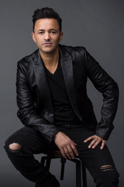 2017 press image of RedOne